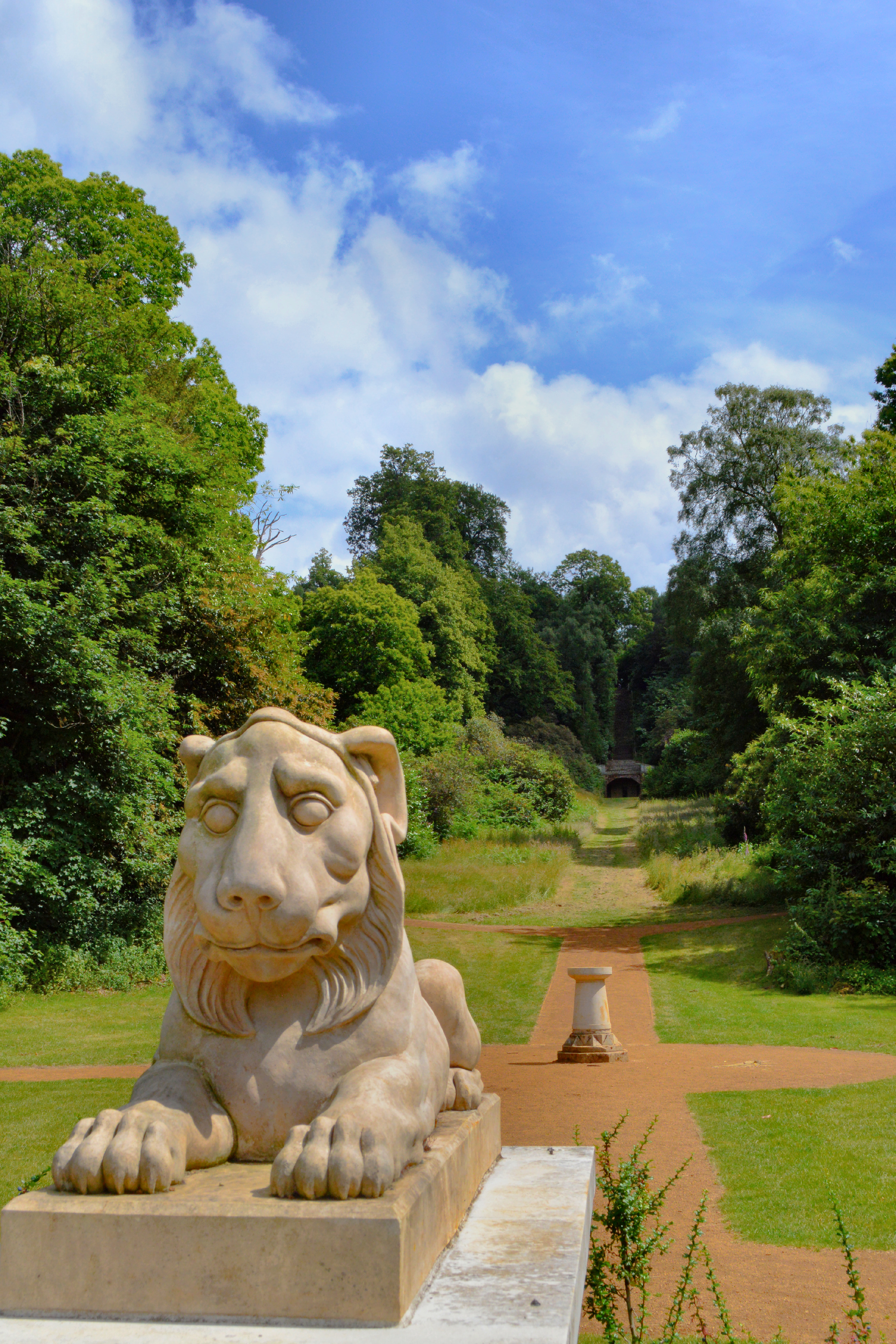 Deepdene Gardens, View from the lion up the valley